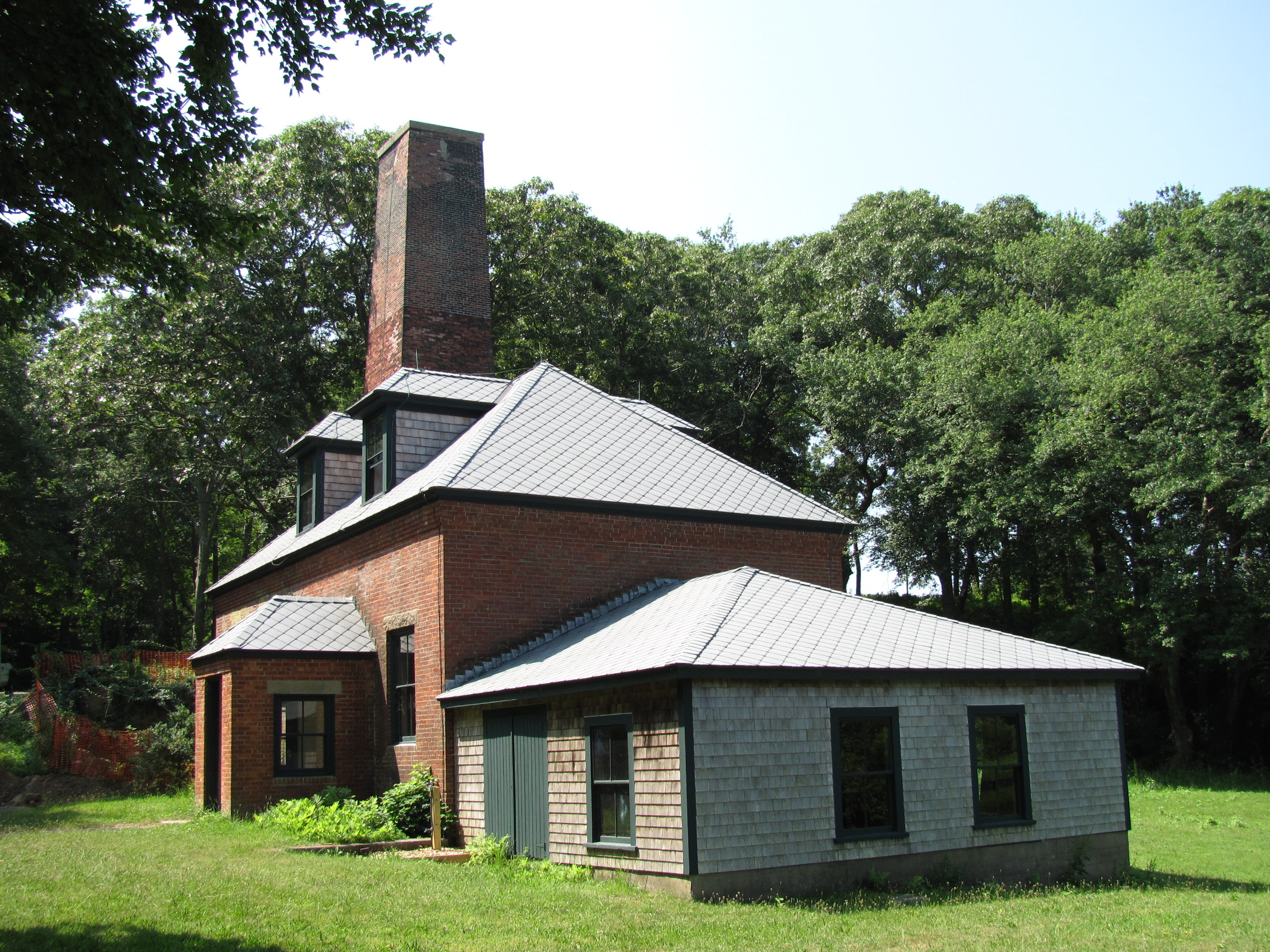 Tashmoo Springs Pumping Station, Tisbury Massachusetts On the National Register of Historic Places in Dukes County, Massachusetts.